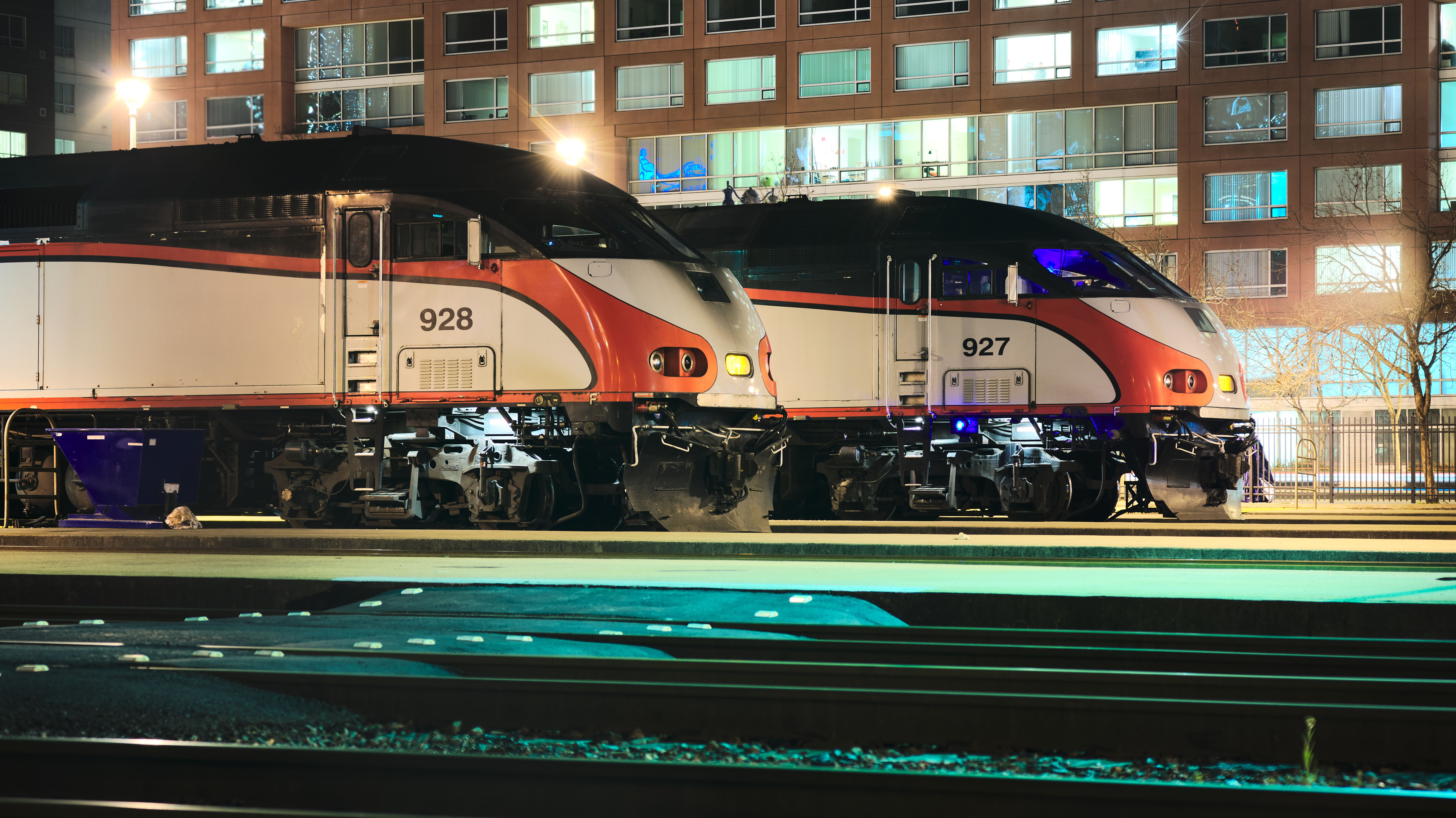 MPI MP36PH-3C locomotives of Caltrain at the San Francisco station at night.